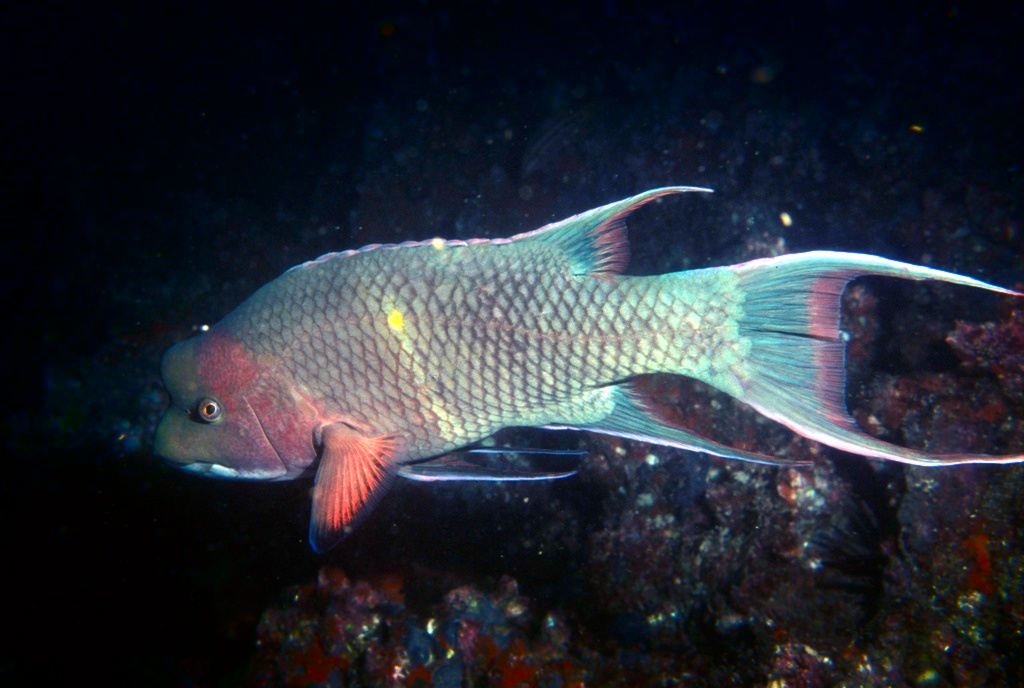 Bodianus diplotaenia male